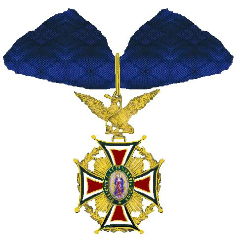 Order of Our Lady of Guadalupe Mexico